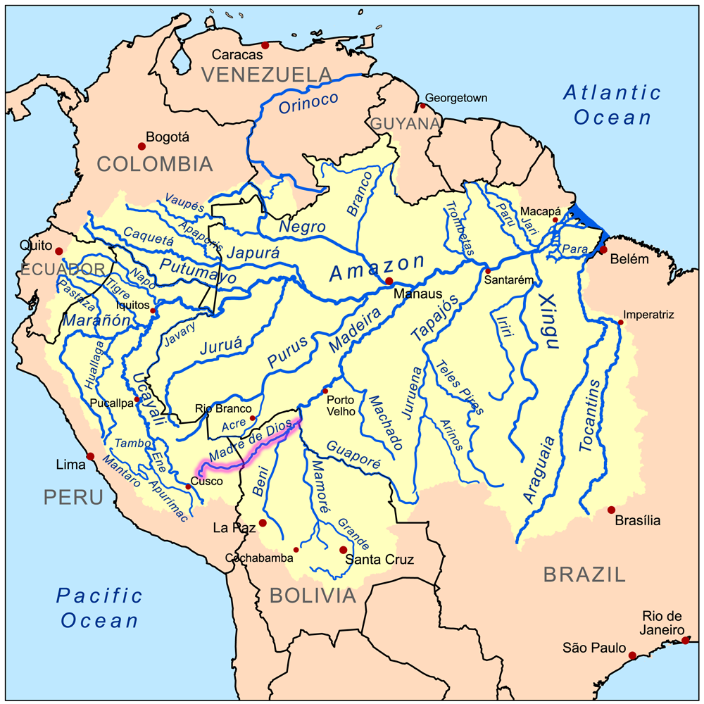 This is a map of the Amazon River drainage basin with the Madre de Dios River highlighted.